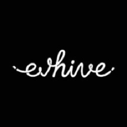 EV Hive Logo Company